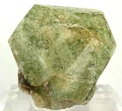 Hydroxylherderite Locality: Darra-i-Pech (Pech; Peech; Darra-e-Pech) Pegmatite Field, Nangarhar (Ningarhar) Province, Afghanistan (Locality at ) Size: 7 x 6 x 4 cm. A most unusual hydroxylherderite. I have never seen another like it. This greenish crystal is shaped more like a garnet than any hydroxylherderite I had ever seen and has glassy luster.